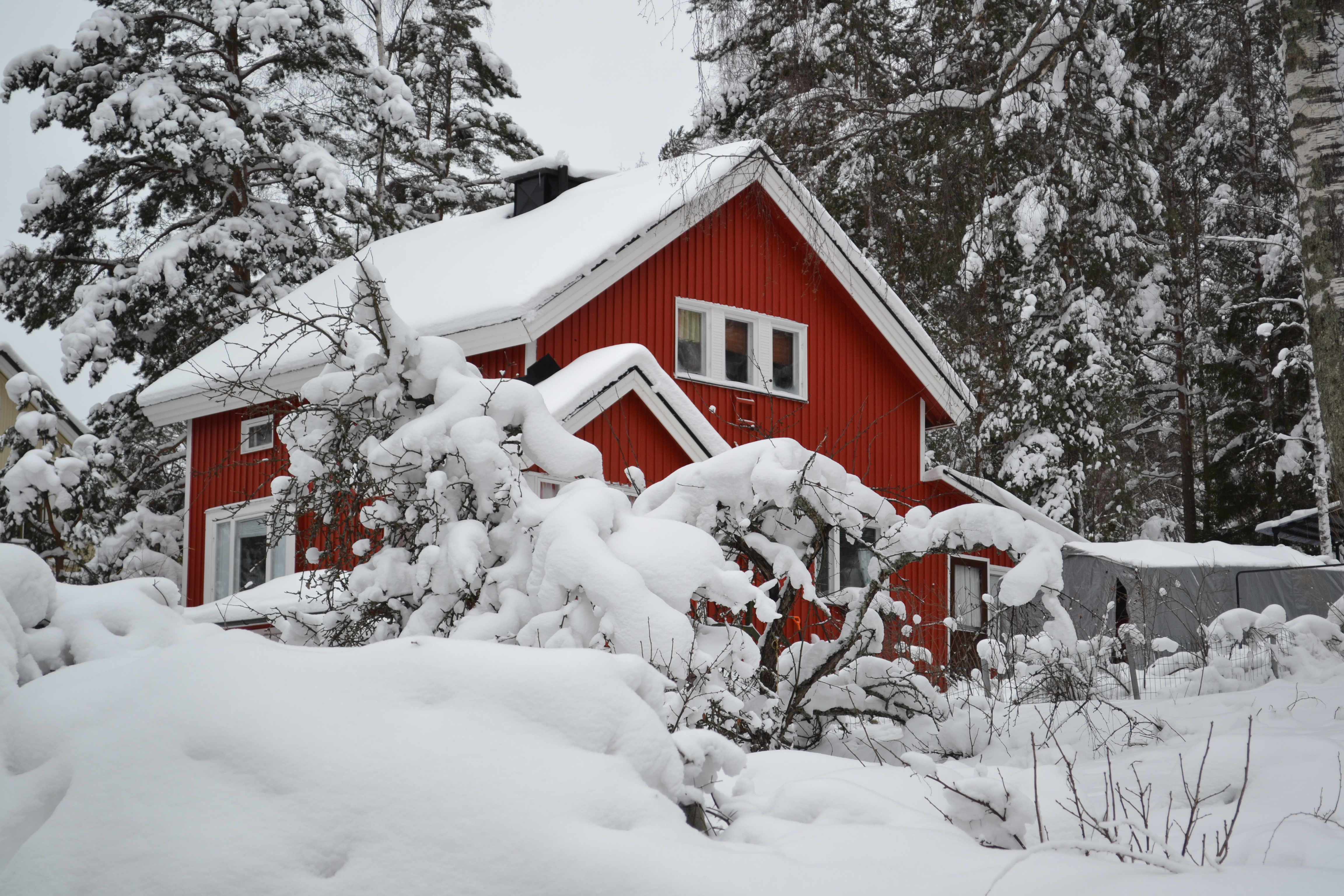 A house in the street Vuorikatu in Kypärämäki, Jyväskylä